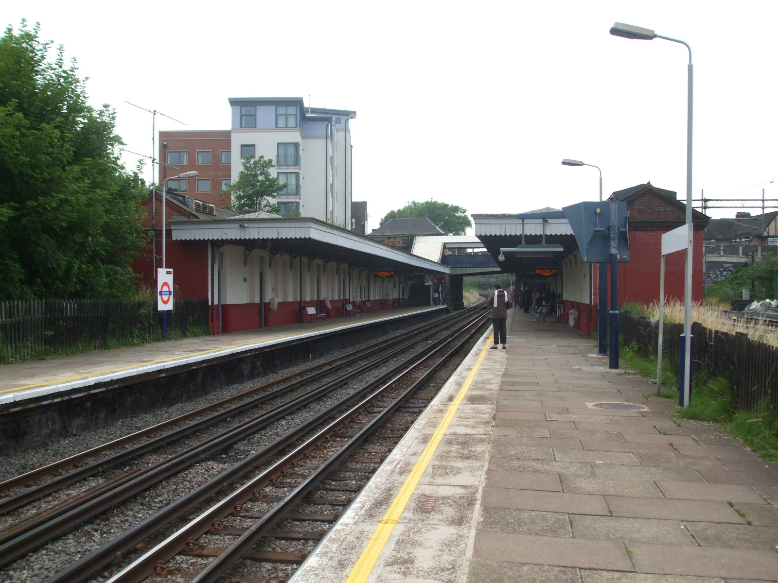 Looking north at Kenton station, served by both London Overground and Underground